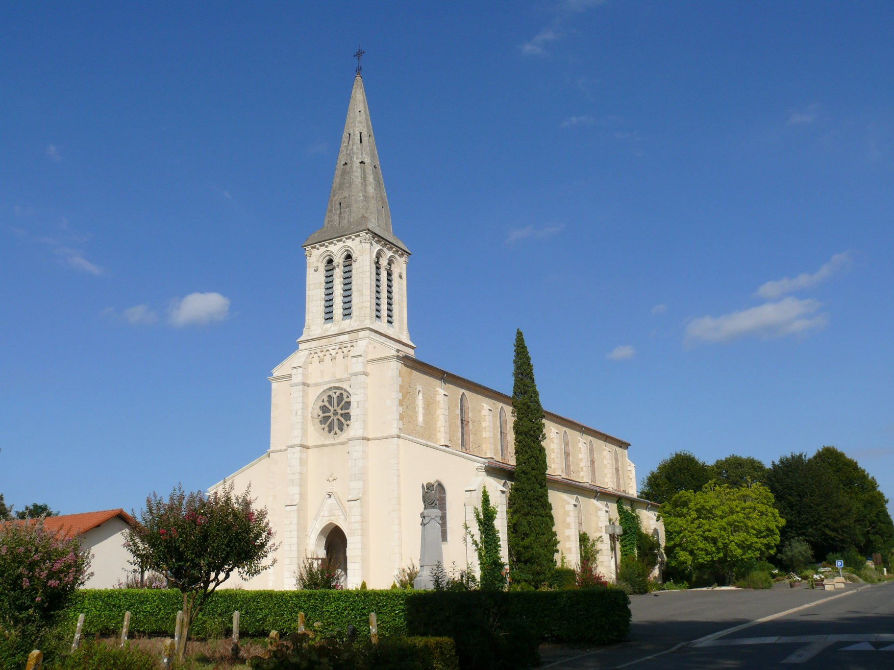 Saint-Peter's church of Gamarde-les-Bains (Landes, Aquitaine, France).